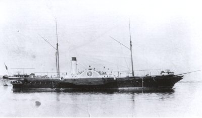 Austro-hungarian paddle steamer SMS Elisabeth.